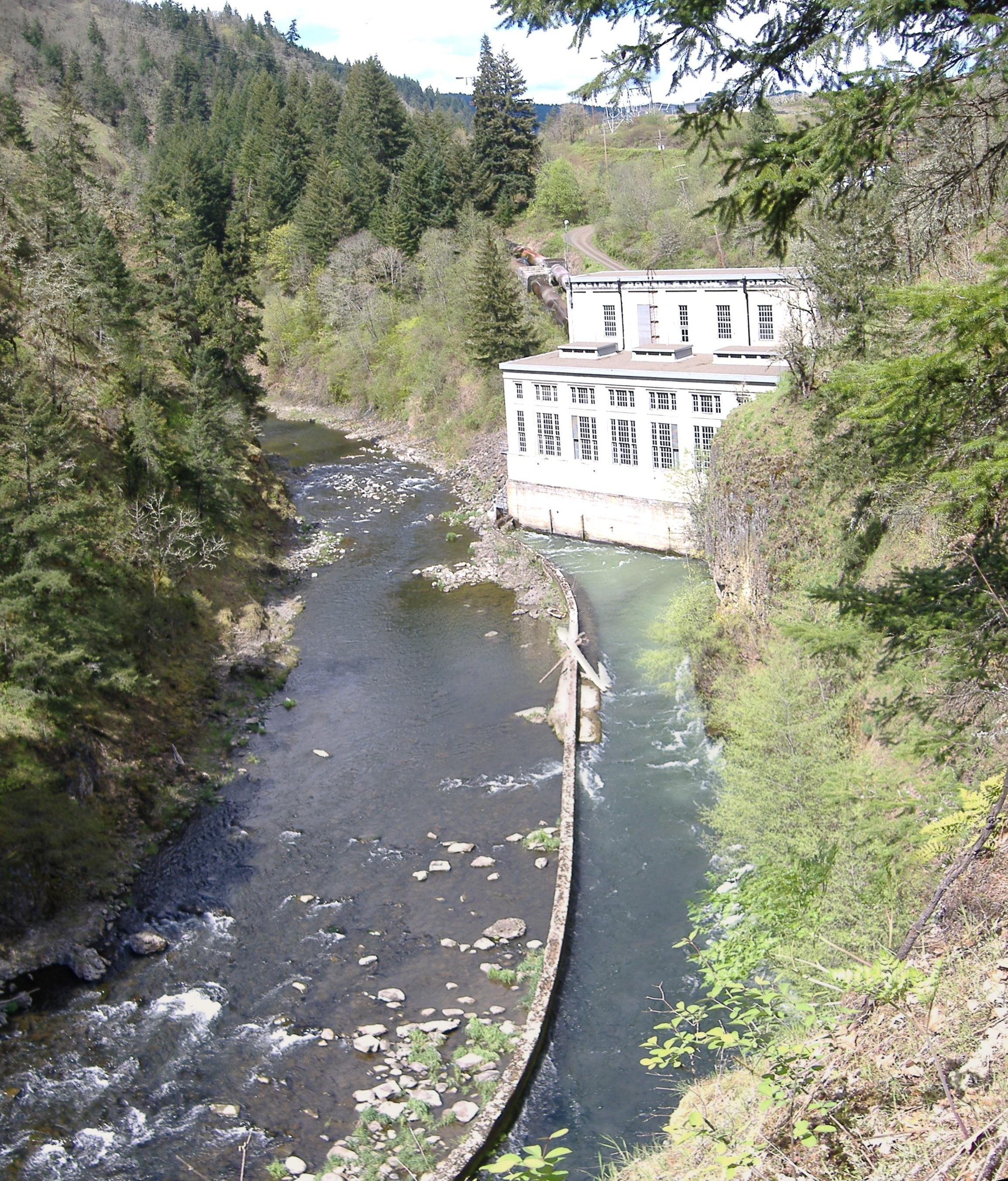 Powerhouse, Condit Hydroelectric Project